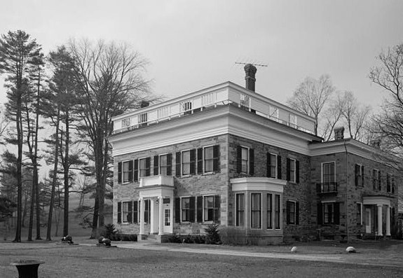 Samuel Gilbert Hathaway House, Solon Road (State Route 41), Cortland (Cortland County, New York) cropped This file comes from the Historic American Buildings Survey (HABS), Historic American Engineering Record (HAER) or Historic American Landscapes Survey (HALS). These are programs of the National Park Service established for the purpose of documenting historic places. Records consist of measured drawings, archival photographs, and written reports. When reusing please credit: Library of Congress, Prints & Photographs Division, NY,12-SOL,1-2 This tag does not indicate the copyright status of the attached work. A normal copyright tag is still required. See Commons:Licensing. This work is in the public domain in the United States because it is a work prepared by an officer or employee of the United States Government as part of that person’s official duties under the terms of Title 17, Chapter 1, Section 105 of the US Code. Note: This only applies to original works of the Federal Government and not to the work of any individual U.S. state, territory, commonwealth, county, municipality, or any other subdivision. This template also does not apply to postage stamp designs published by the United States Postal Service since 1978. (See § 313.6(C)(1) of Compendium of U.S. Copyright Office Practices). It also does not apply to certain US coins; see The US Mint Terms of Use. This file has been identified as being free of known restrictions under copyright law, including all related and neighboring rights. Object location42° 37′ 04″ N, 76° 01′ 11″ W